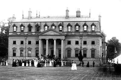 Garendon Hall near Shepshed and Loughborough, Leicestershire. The picture illustrates the gothic mansard roof added to the neo-classical house, which Pevsner described as “really rather horrible”